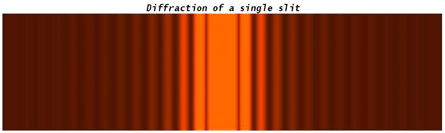 Diffraction of a single slit computer simulation